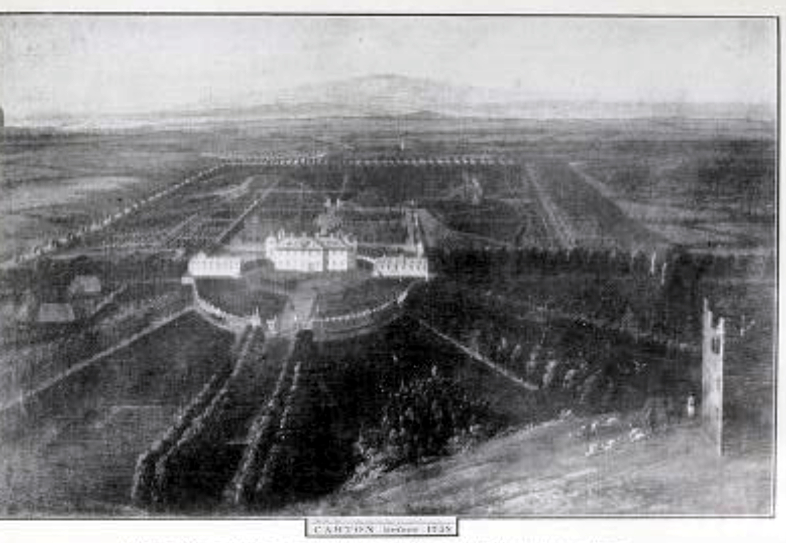 Print of a view of Carton Demesne, early 18th century, reproduced in Kildare Archaeological Society Journal, 1902